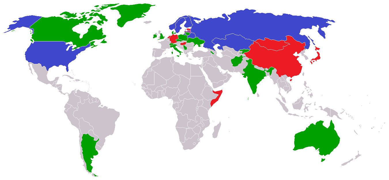 Participation in the Bandy World Championship in 2015. Blue: Division A. Red: Division B. Purple: both divisions. Green: members of the Federation of International Bandy not participating in the World Championship